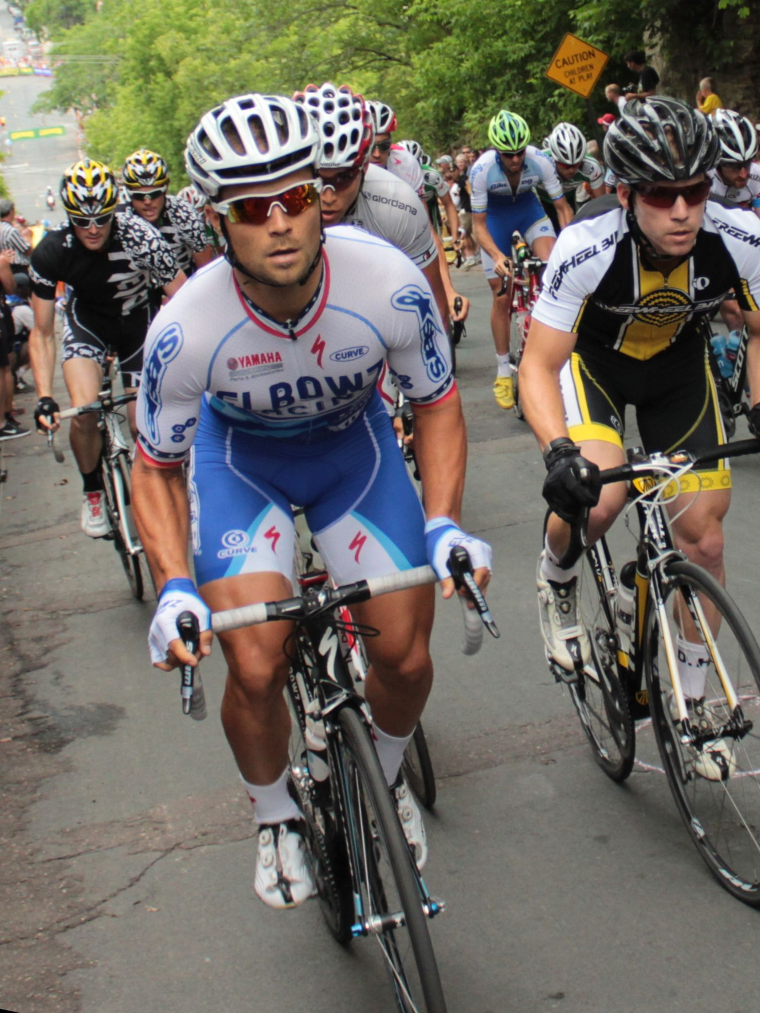 Cyclist Eric Marcotte at the 2012 Nature Valley Grand Prix, racing in its final stage, the Stillwater criterium.